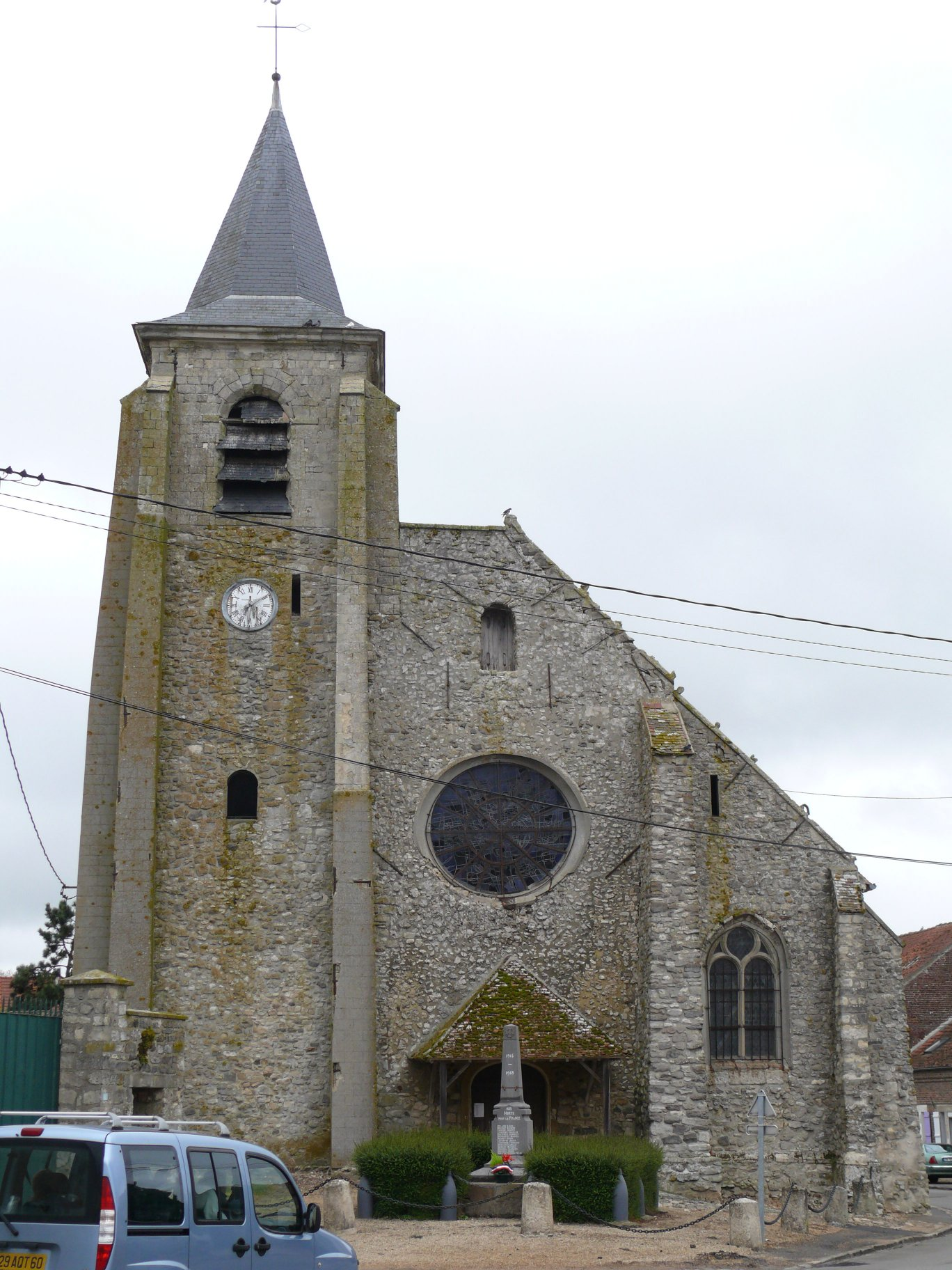 Saint-Peter's church of Ognes (Oise, Picardie, France).